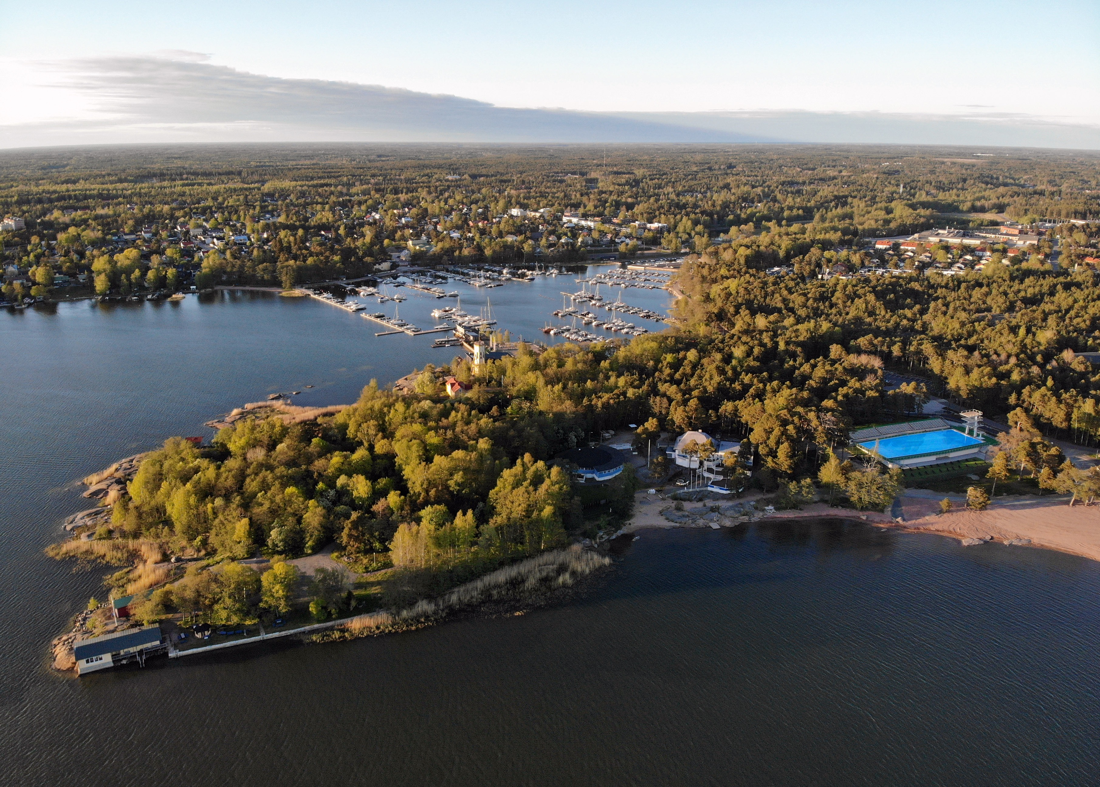 Fåfänga peninsula, Rauma, Finland.